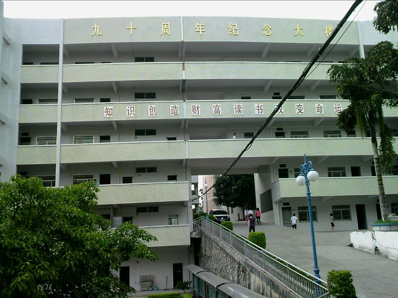 Shuizhai High School